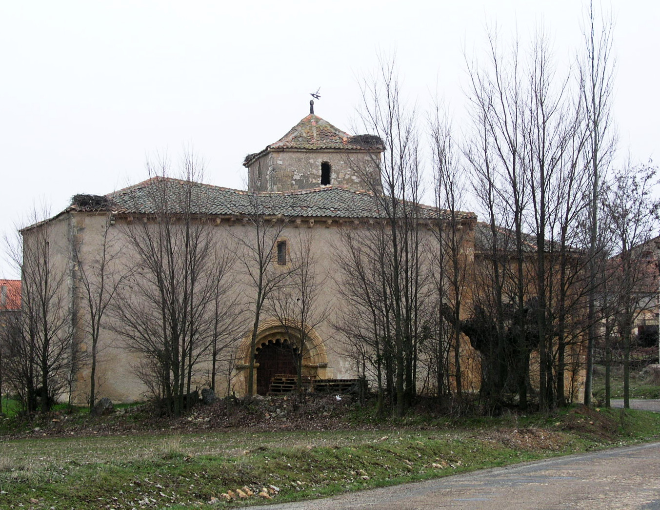 Iglesia in the small village of Sotillo, near Sepúlveda, Spain. The picture was taken the 28th December 2003 by Håkan Svensson, (Xauxa).